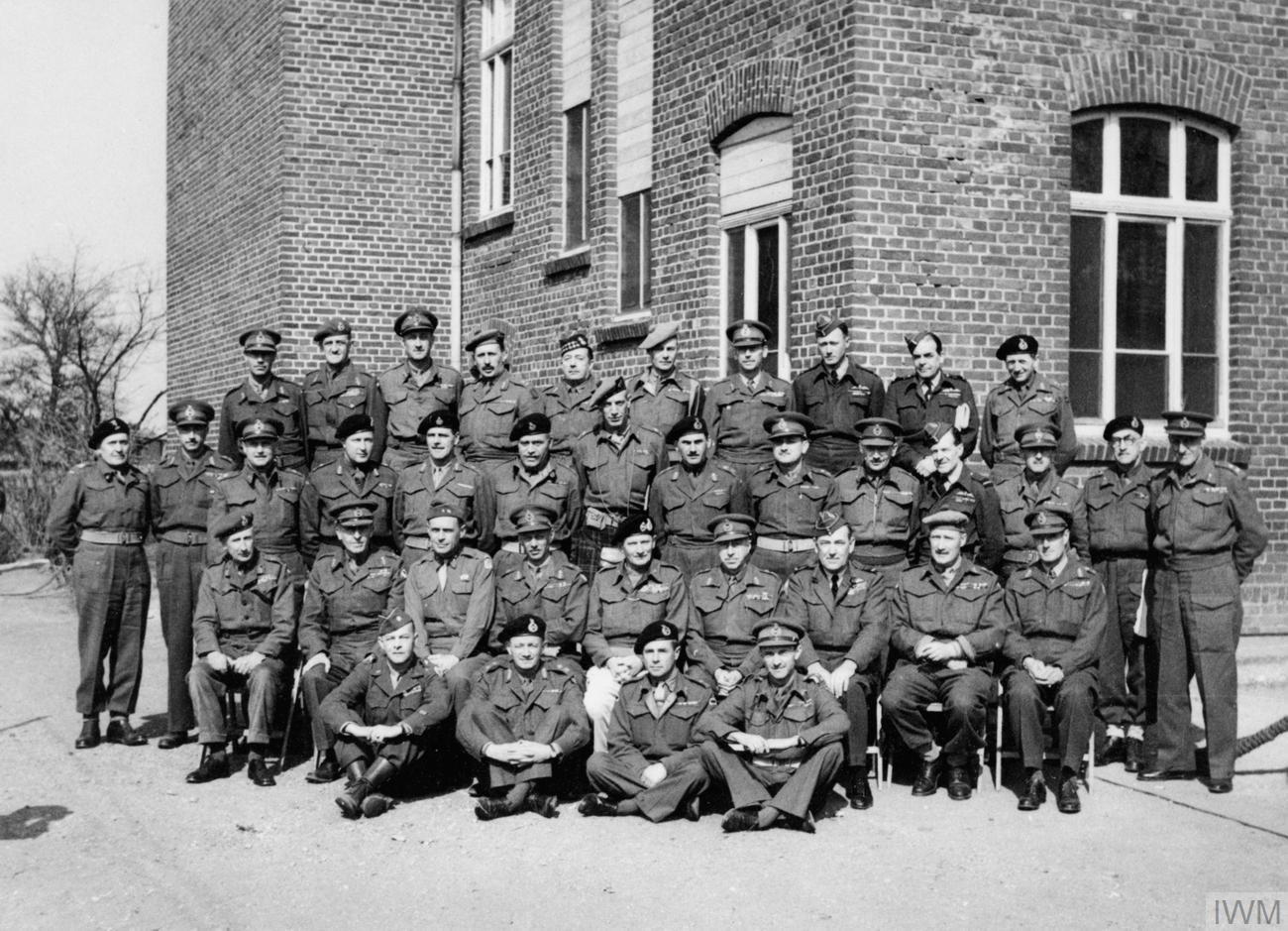 The Life and work Edward G Malindine, Photojournalist and Official Army Photographer 1906 - 1970 Field Marshal Montgomery poses for a group photograph with his staff, Corps Commanders and Divisional Commanders at Walbeck, Germany, after issuing his final orders for the Rhine Crossing, 22 March 1945.